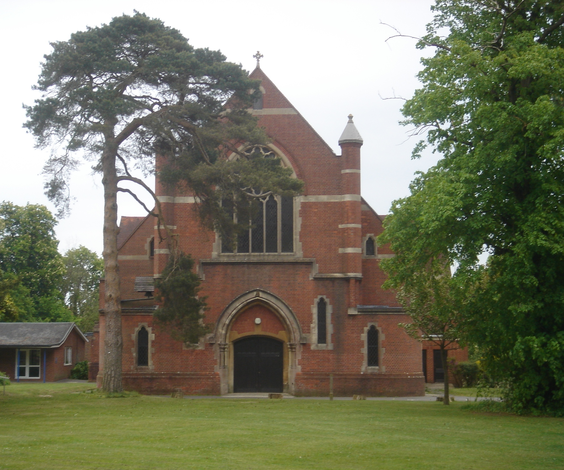 St Andrew's parish church, Junction Road, Burgess Hill, West Sussex, England. Built in 1908 and extended in 1924. It is one of the three parish churches in Burgess Hill.